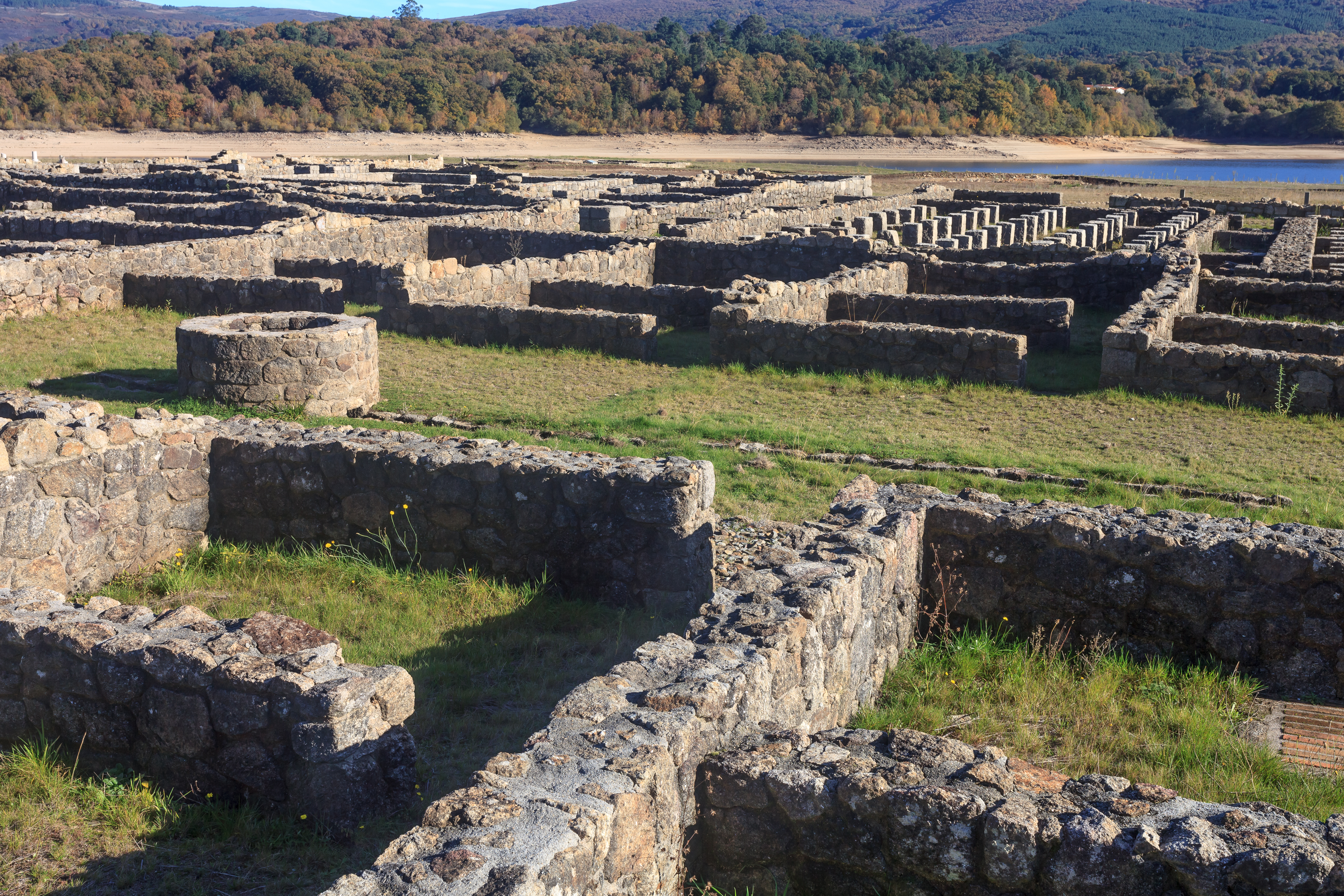 The roman castra Aquis Querquennis, in Bande, Ourense, Galicia.